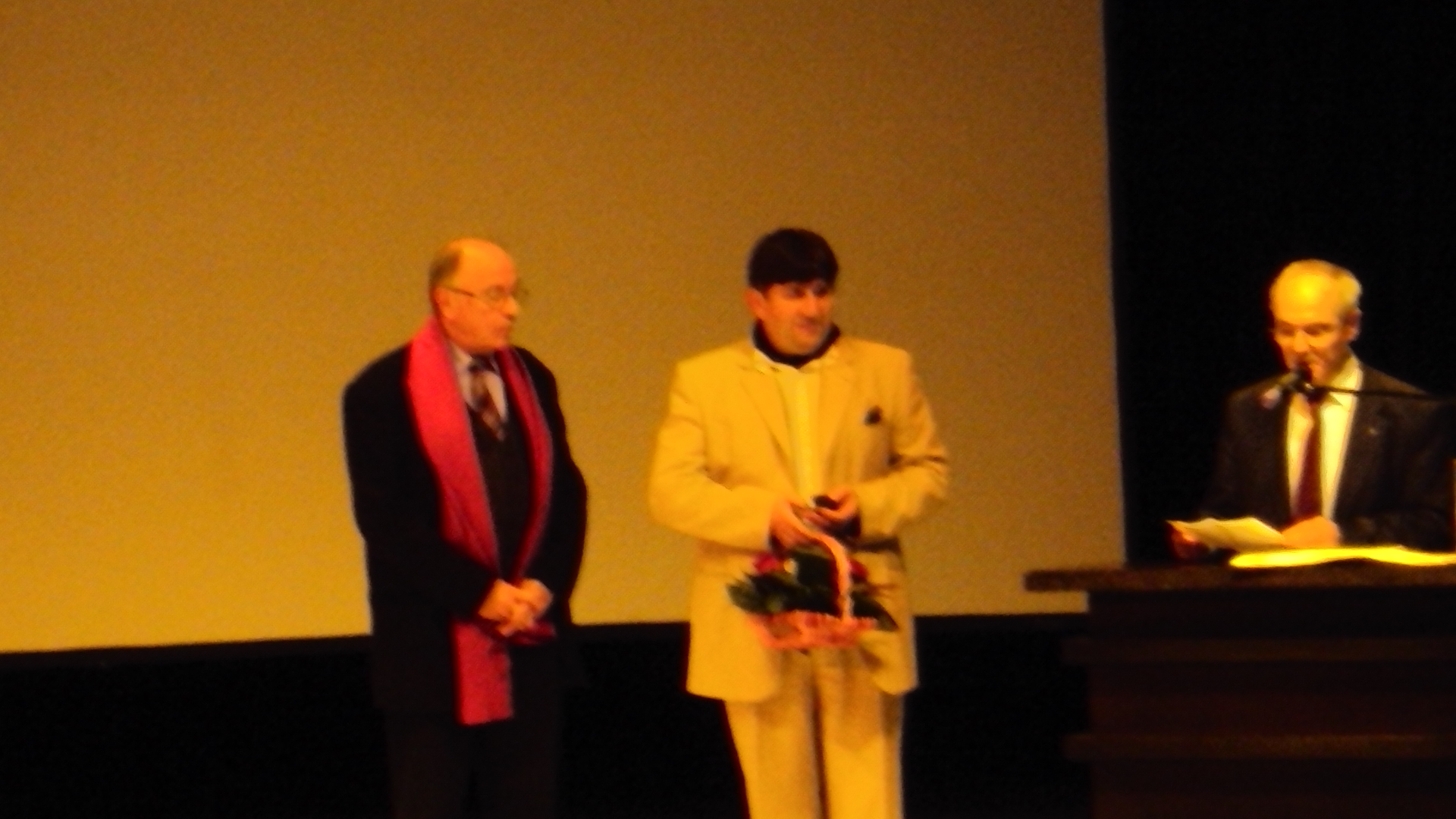 Kovács Levente, Gáspárik Attila, Béres András